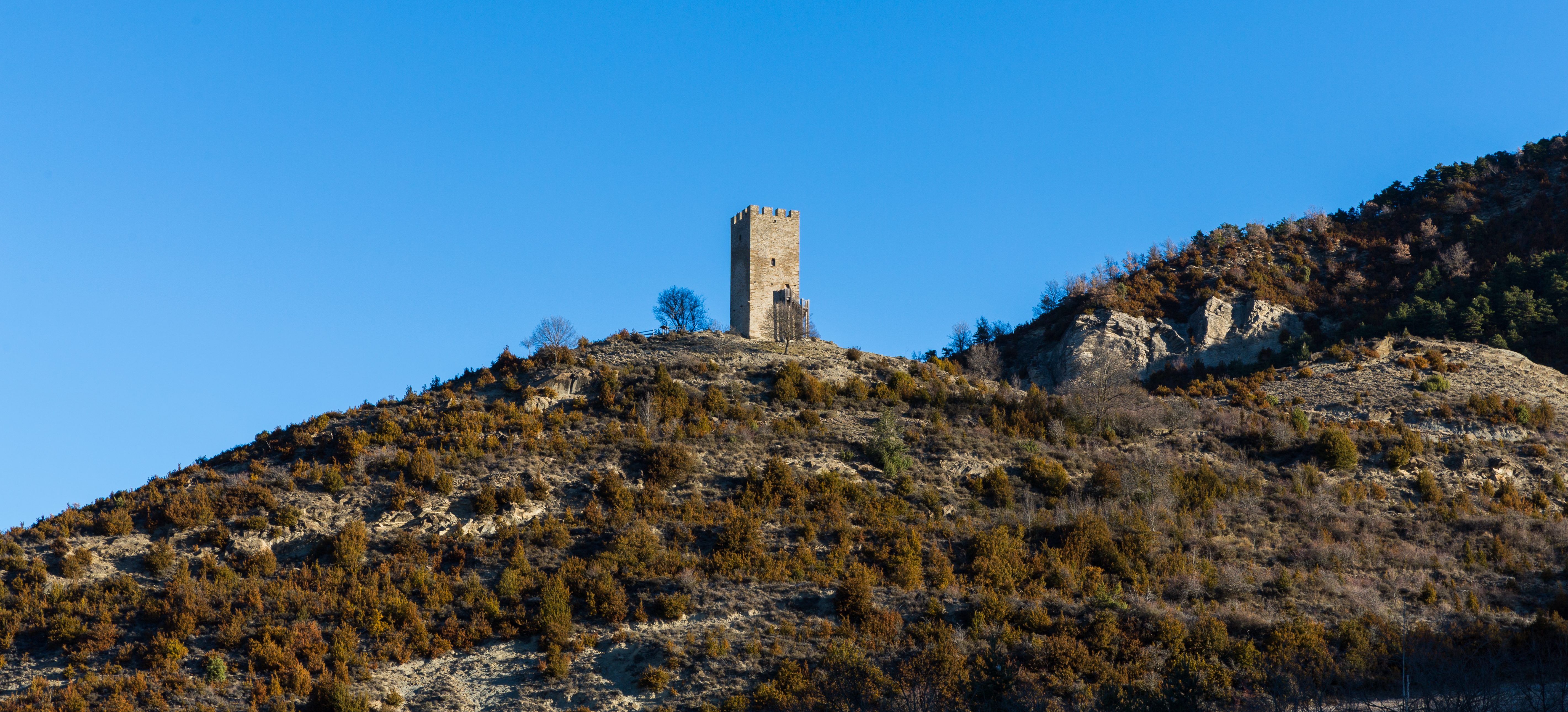 Torre del Moro, Lárrede, Huesca, Spain